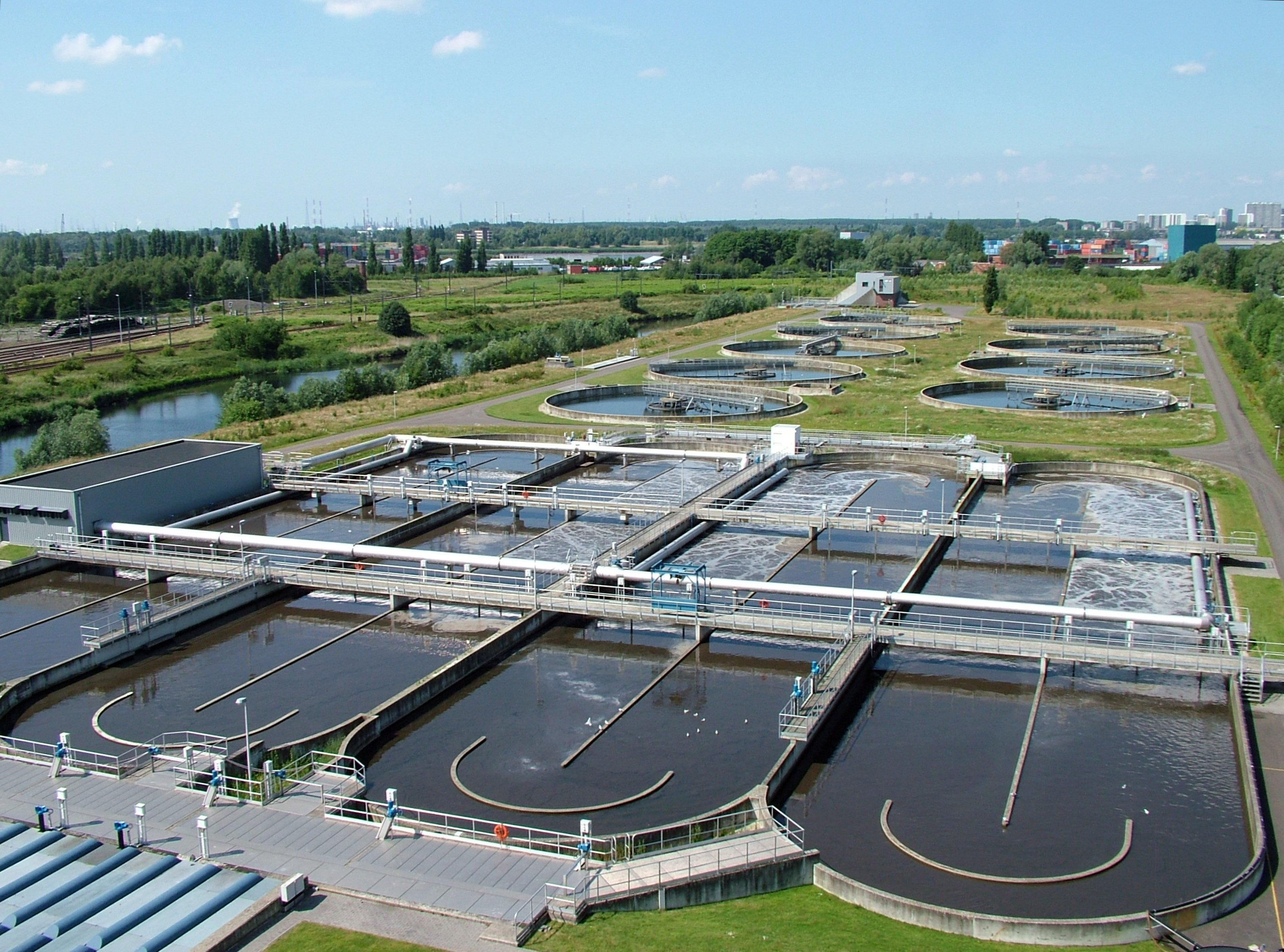 View of the Aquafin waste water treatment plant of Antwerpen-Zuid, located in the south side of the conurbation of Antwerp